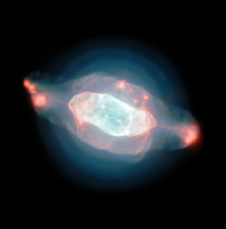 The spectacular planetary nebula NGC 7009, or the Saturn Nebula, emerges from the darkness like a series of oddly-shaped bubbles, lit up in glorious pinks and blues. This colourful image was captured by the powerful MUSE instrument on ESO’s Very Large Telescope (VLT), as part of a study which mapped the dust inside a planetary nebula for the first time.